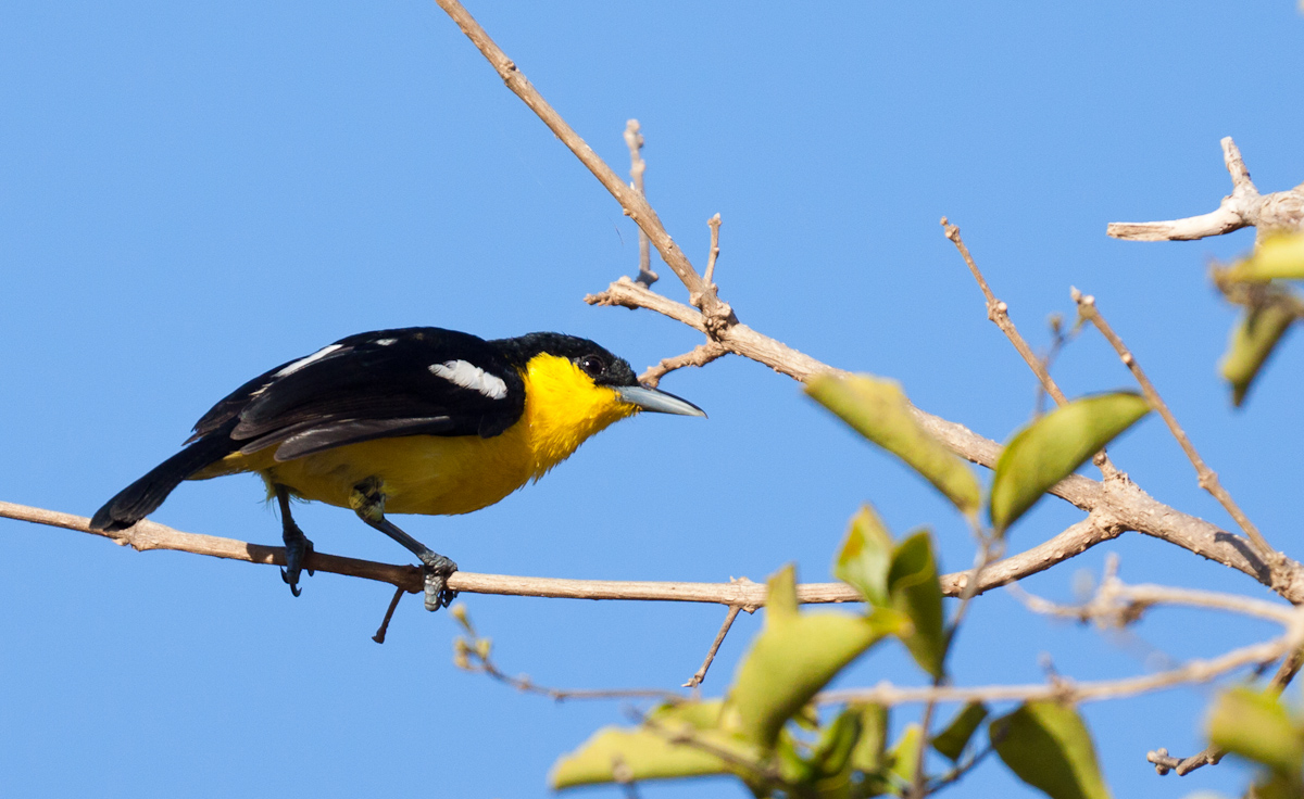 A male Common Iora at Yala National Park, Sri Lanka.